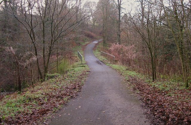 Bridge Over Bog Stank Bog Stank runs from The Village, through Cumbernauld Glen and eventually joins the Red Burn. This steepish pathway eventually brings you to the approach road of Cumbernauld House.